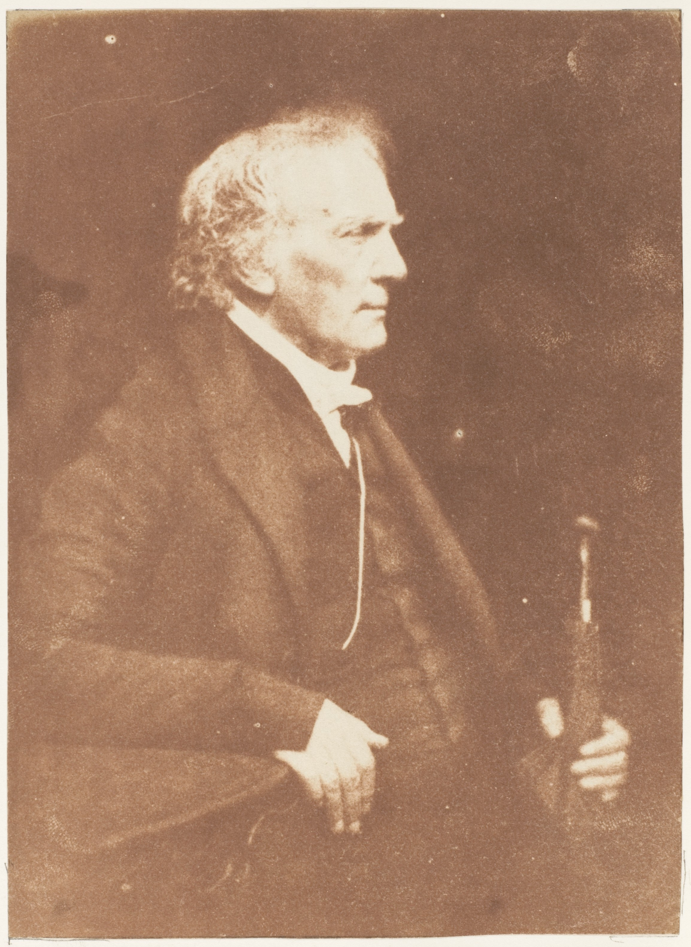 “Rev. Dr. Thomas Chalmers” by Hill and Adamson (British, active 1843–1848), David Octavius Hill (British, Perth, Scotland 1802–1870 Edinburgh, Scotland), Robert Adamson (British, St. Andrews, Scotland 1821–1848 St. Andrews, Scotland) via The Metropolitan Museum of Art is licensed under CC0 1.0